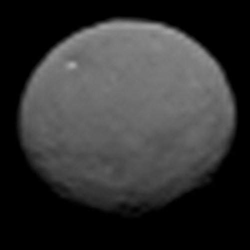 Extract from original caption: This image, taken 147,000 miles (237,000 kilometers) from Ceres on January 25, 2015 by NASA's Dawn spacecraft, is part of a series of views representing the best look so far at the dwarf planet. The image is 43 pixels across, representing a higher resolution than images of Ceres taken by the Hubble Space Telescope in 2003 and 2004.